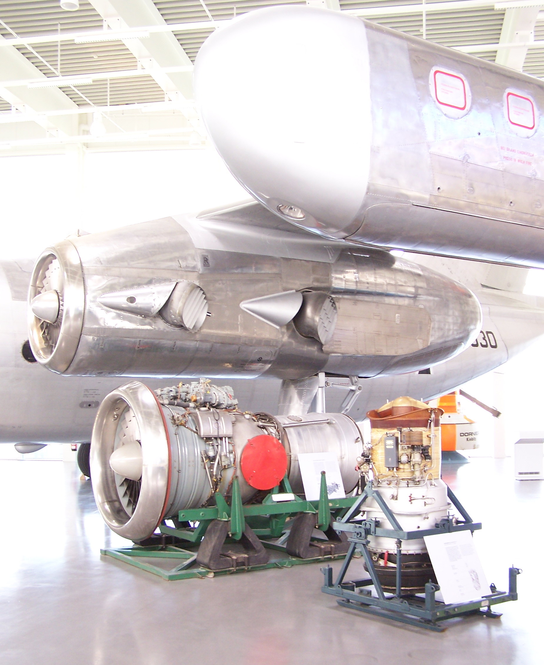 Dornier Do 31 E1 at Dornier Museum